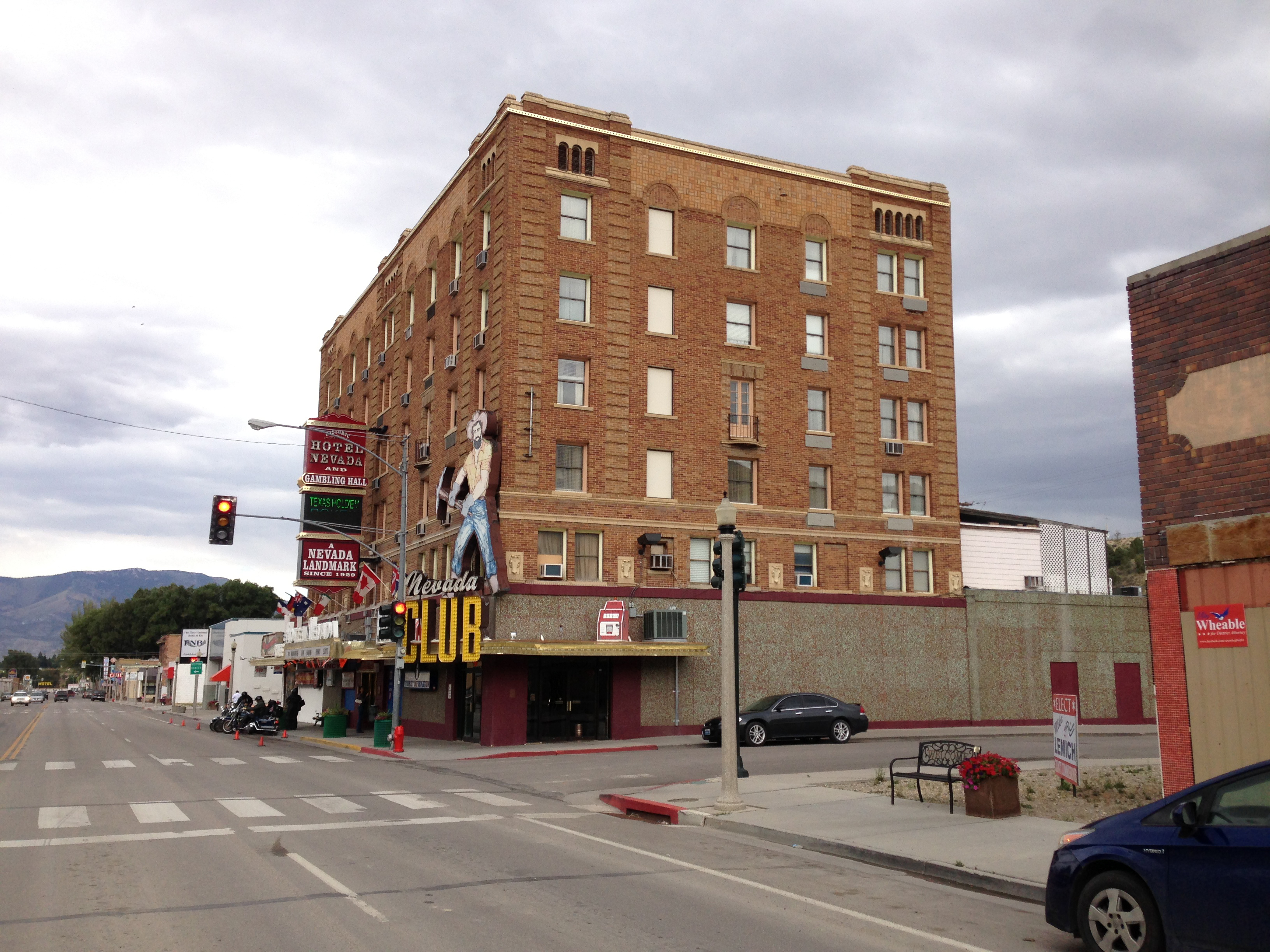 Hotel Nevada along U.S. Route 50 in downtown Ely, Nevada